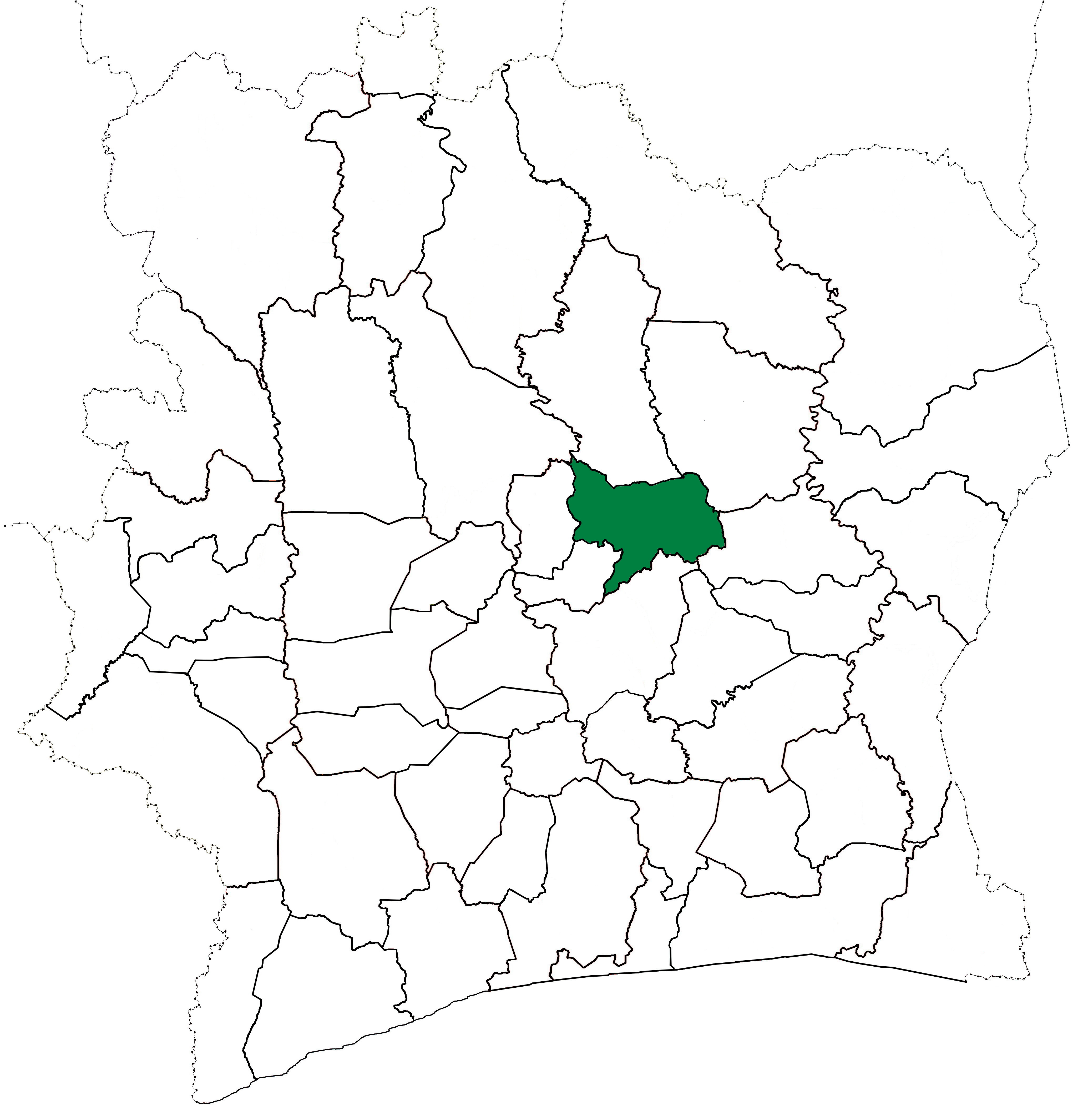 Locator map for Bouaké Department in Côte d'Ivoire in 1988. Bouaké Department kept these boundaries until 2008, but other subdivision boundaries began to be changed in 1995.